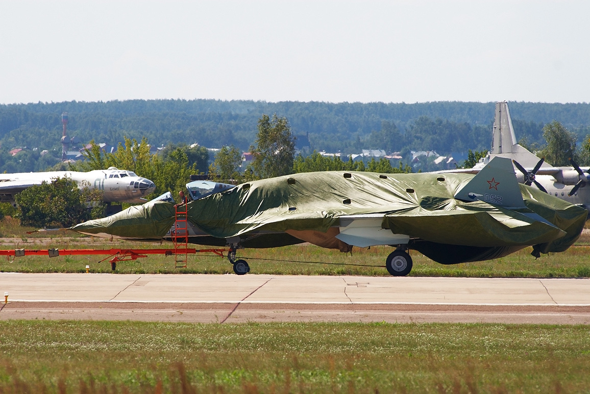 Sukhoi PAK FA on MAKS 2011